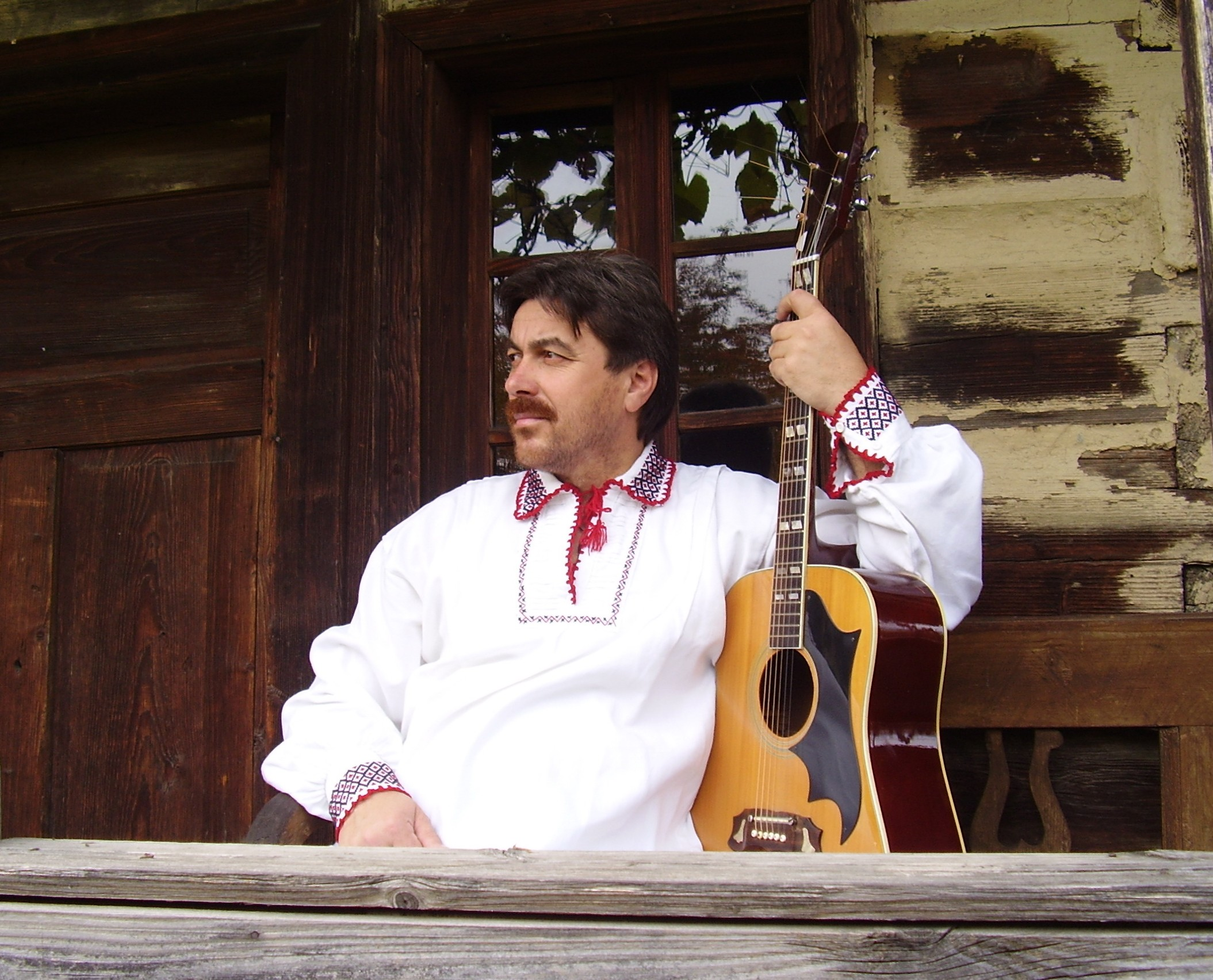 Florin Sasarman